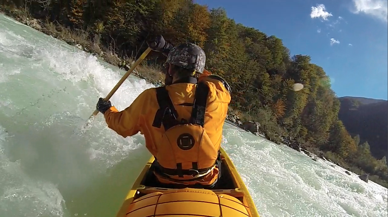 A modern WW open canoe, OC1, on Soca River - Graveyard Section at 110m3/sec. Taken in October 2013, after a couple days of rain, when the river Soca swelled up from 10m3/sec. to 110m3/sec. of flow.